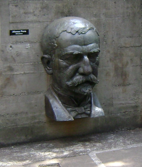 Cabeças dos fundadores de Belo Horizonte (entre eles estão Aarão Reis, Bias Fortes e Afonso Pena), dentro do Parque Municipal de Belo Horizonte.